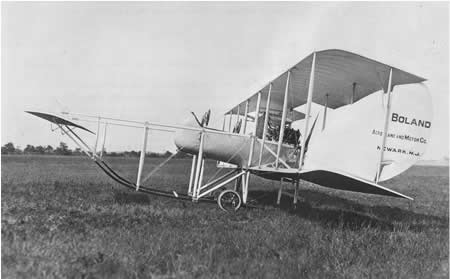 An improved version of the 1910 Boland /1e-v at the Mineola fair grounds in 1914. A fabric-covered nacelle was added to protect pilot and passenger. An 8-cvlinder, 60-hp Boland engine powered the biplane, which was made in both land- and seaplane versions.